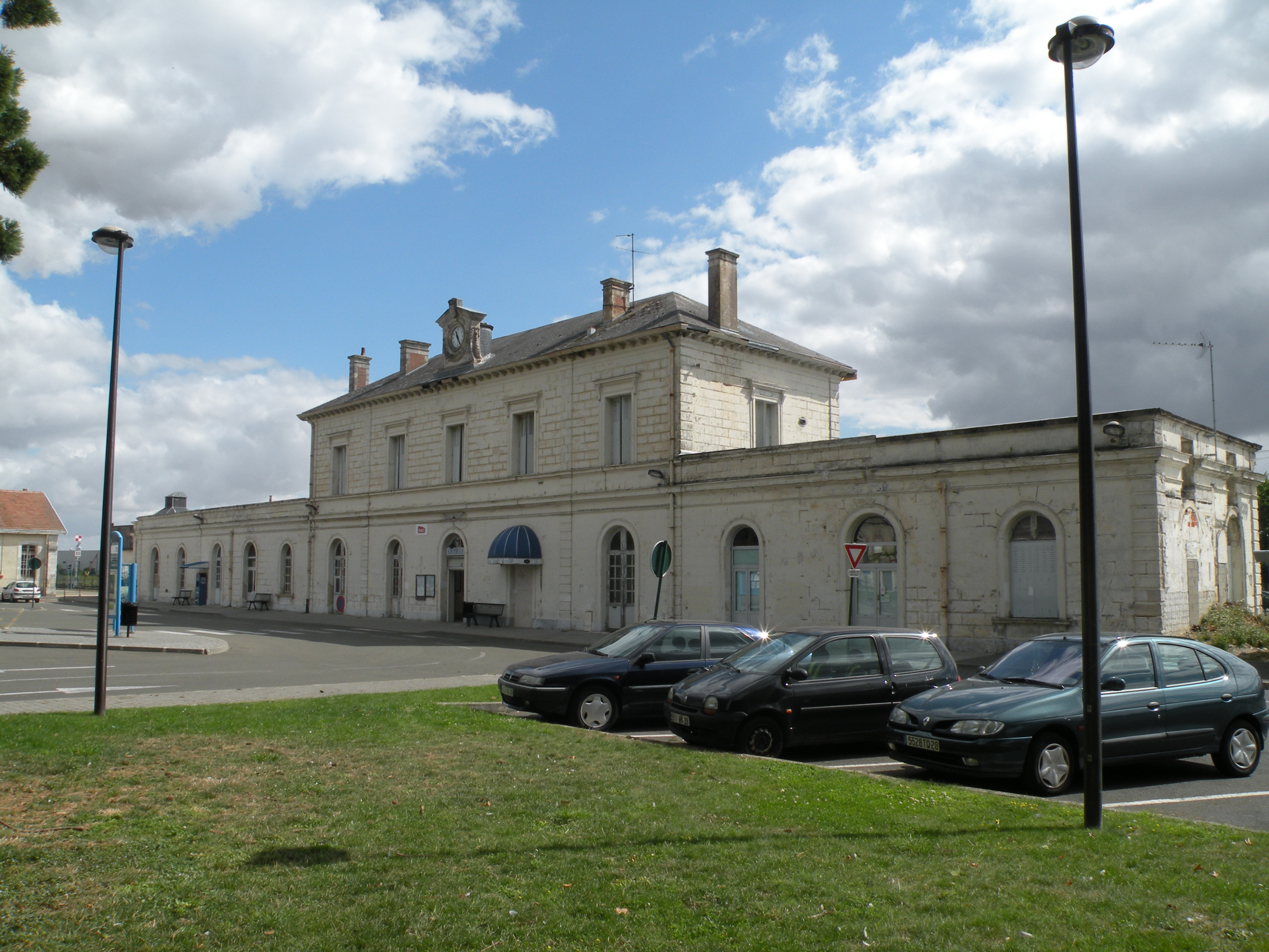 Train station of Châteaudun.